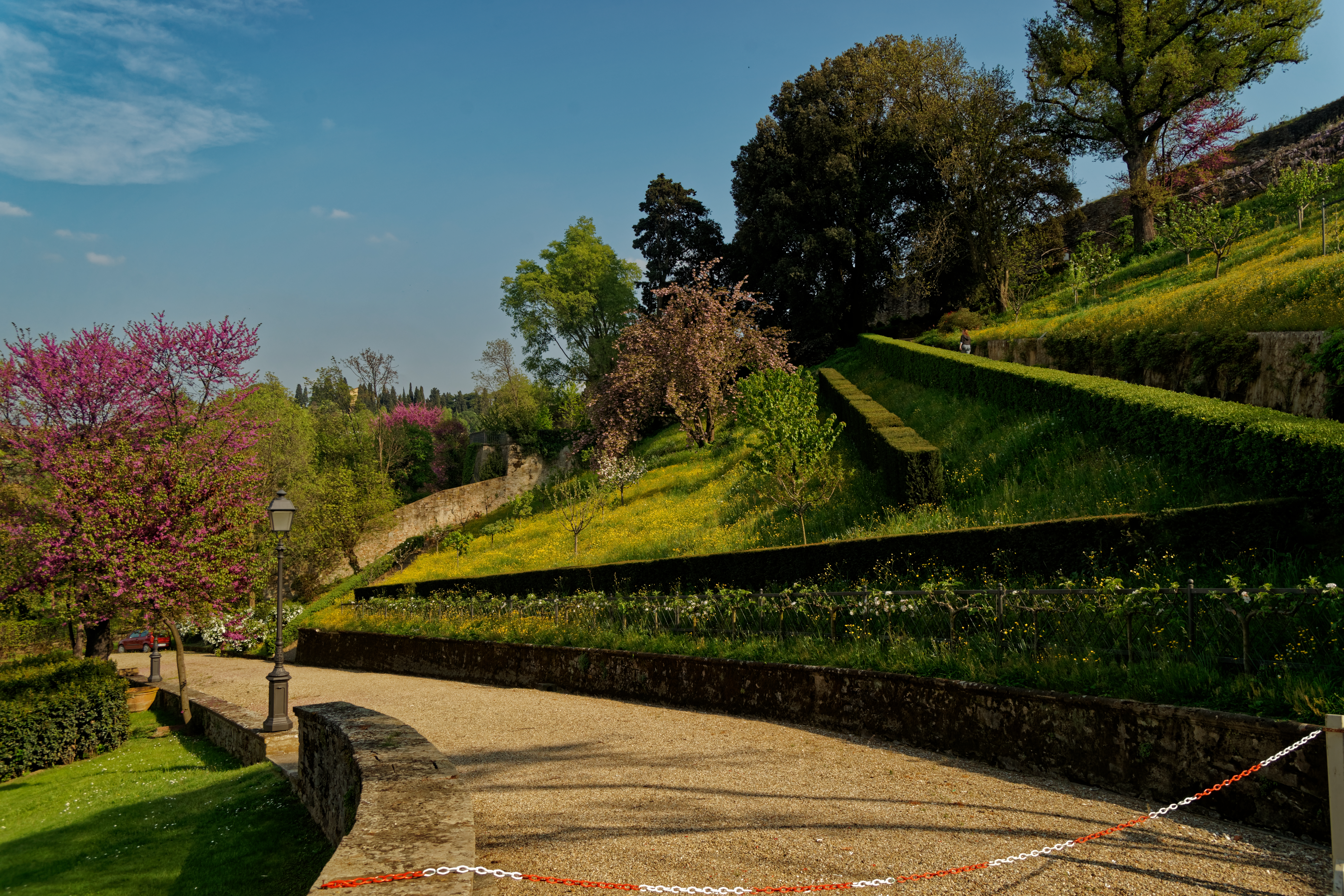 Firenze / Florence - Giardino Bardini - View ESE